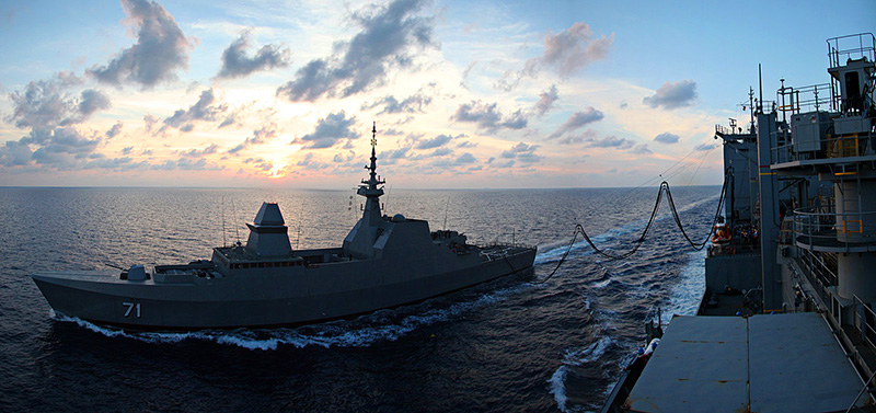 Over the course of three days and one night in late May in the South China Sea, the crew of USNS Alan Shepard conducted extensive alongside replenishment training for the Singapore navy both in port and at sea. Pictured is Singapore navy vessel RSS Tenacious alongside USNS Alan Shepard during the first of three replenishment evolutions. Photo by Lee Apsley, first officer aboard Alan Shepard.